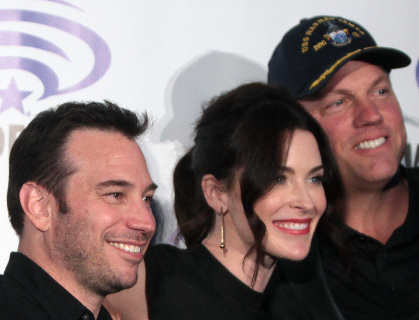 Hank Steinberg, Bridget Regan and Adam Baldwin at the 2016 WonderCon, for "The Last Ship", at the Los Angeles Convention Center in Los Angeles, California.